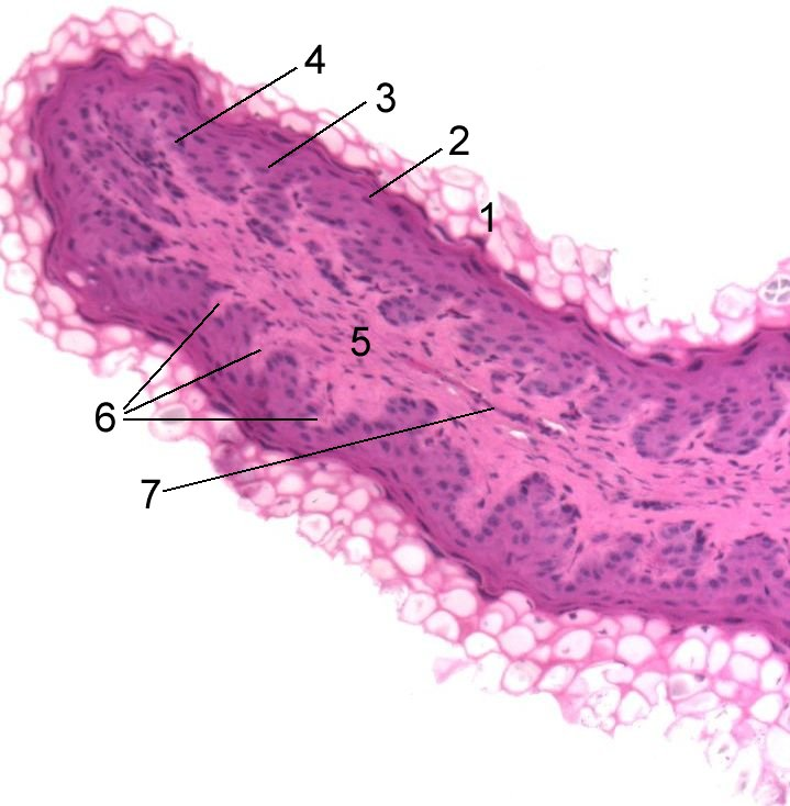 histological section of a sheep ruminal papilla. 1 Type-C horn cells, 2 granulosa cell, 3 parabasal cell, 4 basal cell, 5 lamina propria, 6 papillary body, 7 central arteriola